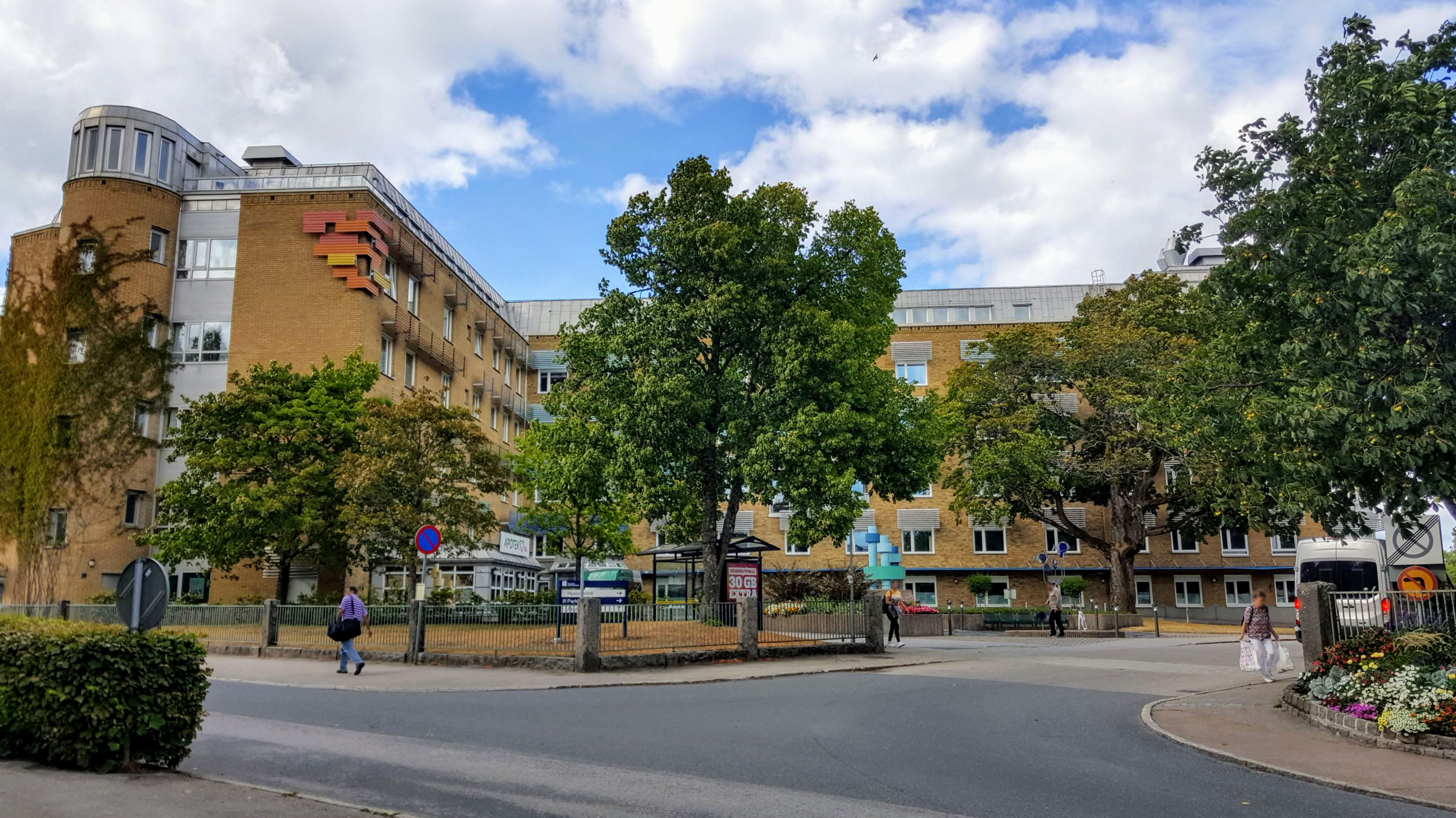 The main entrance of Ljungby Hospital at the south end of the hospital complex.